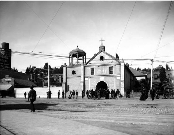 Nuestra Señora Reina de los Angeles (Plaza Church), Los Angeles, California. Men and women gather around the Plaza Church. The church is a stone block building with an arched doorway, ocular window, and a gazebo-like structure mounted on the roof. Shows the faint impressions of paintings on the exterior of the building. Signs on nearby commercial buildings read: "Saloon and Restaurant, Home Brewery" and "F.W. Braun and Co., Druggist."